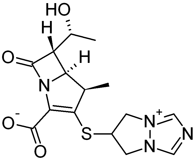 Biapenem